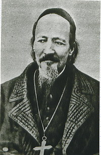 Jacques-Léon Thomine-Desmazures, M.E.P. (1804-1869), vicar apostolic of Lhassa